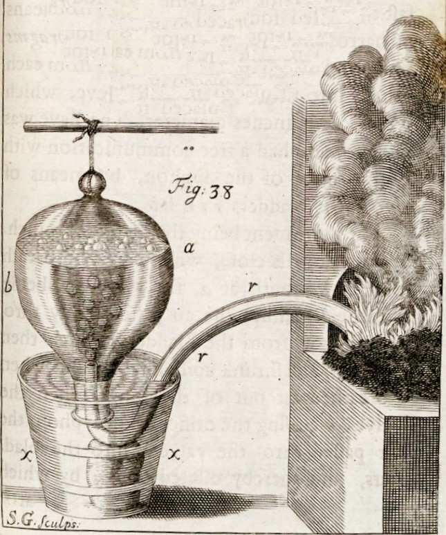 Scan from an old book, showing an early pneumatic trough